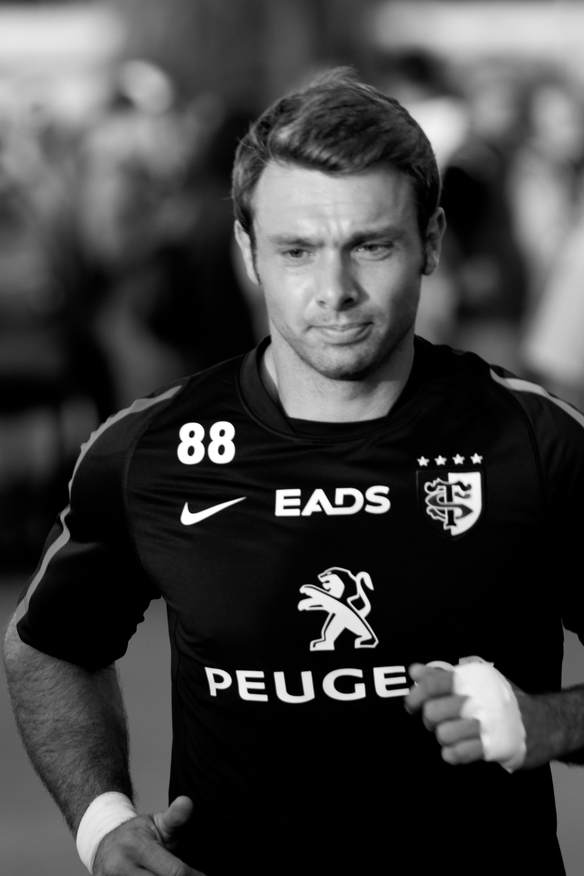 Top 14 — 17 August 2012, Stade Ernest-Wallon. Match between: Stade toulousain — Castres olympique